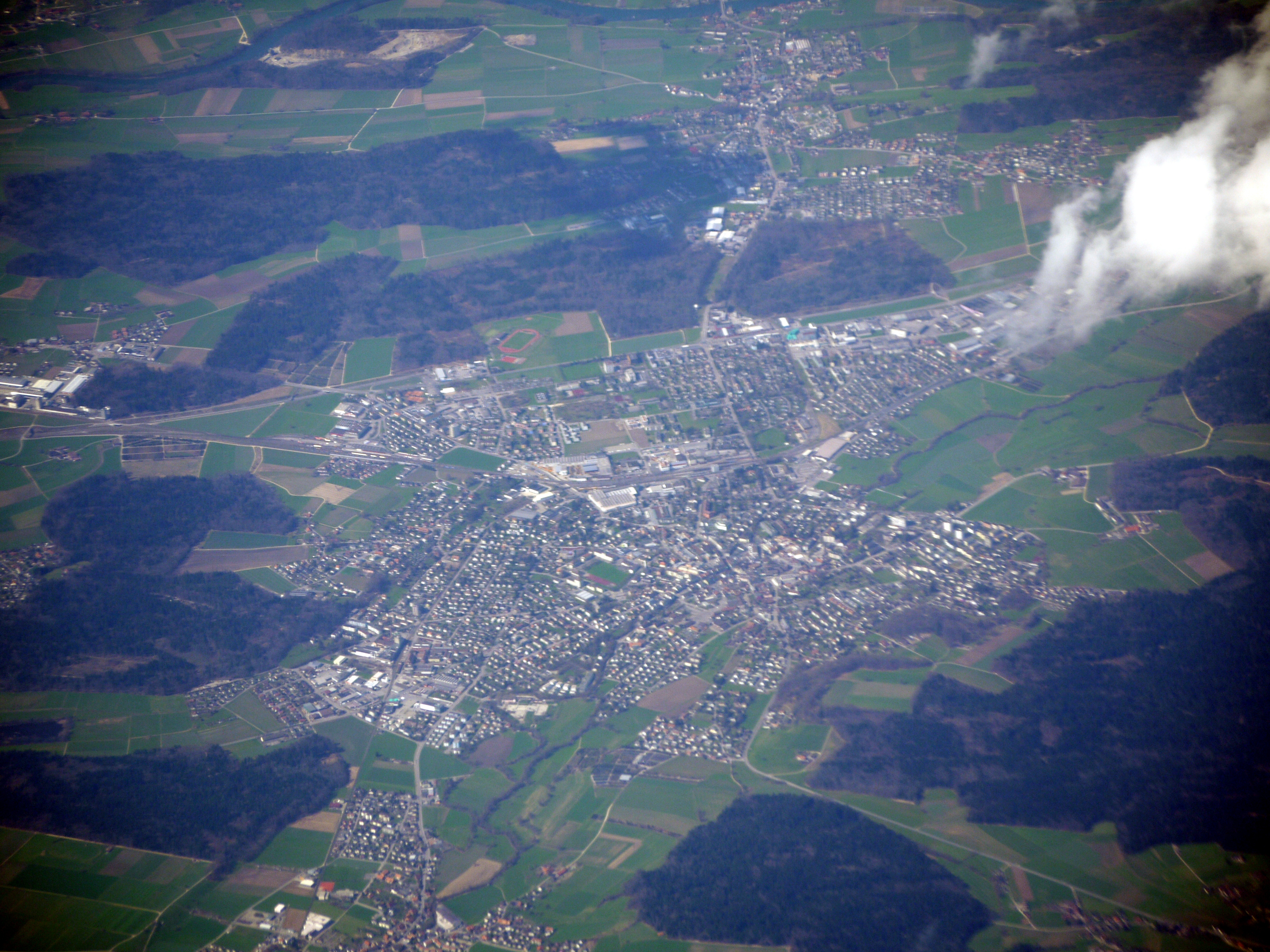 Aarwangen, photograph taken from the sky, on the fly line between Marseille and Stockholm.